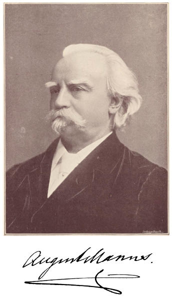 Scanned from original 1898 photograph of August Manns reproduced in The Musical Times, March 1898, p. 154. Public domain.